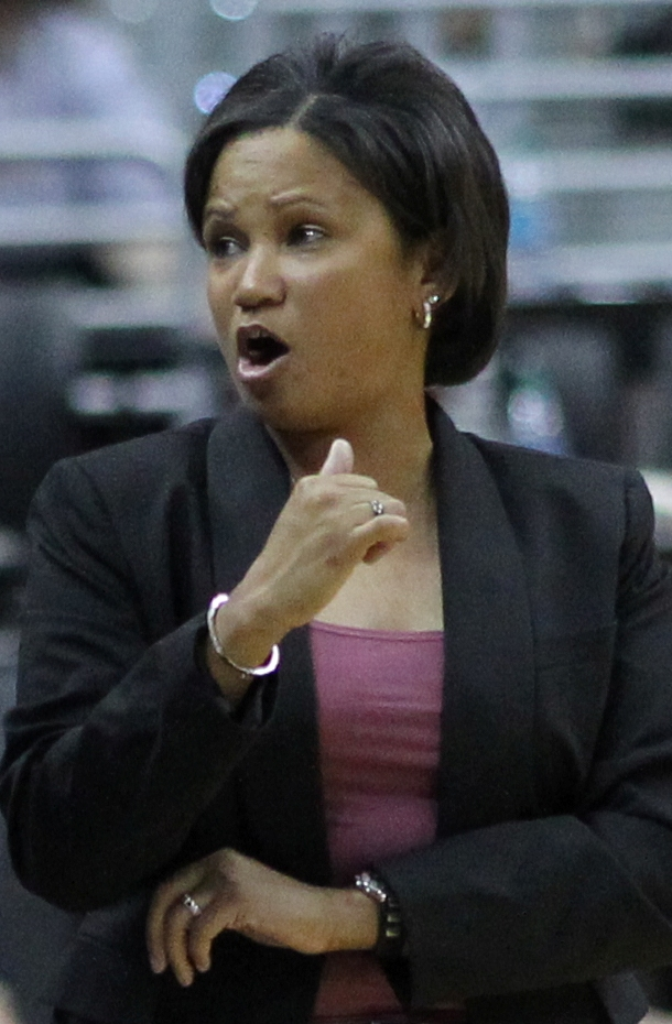 Pokey Chatman of the Chicago Sky (at time of photo)